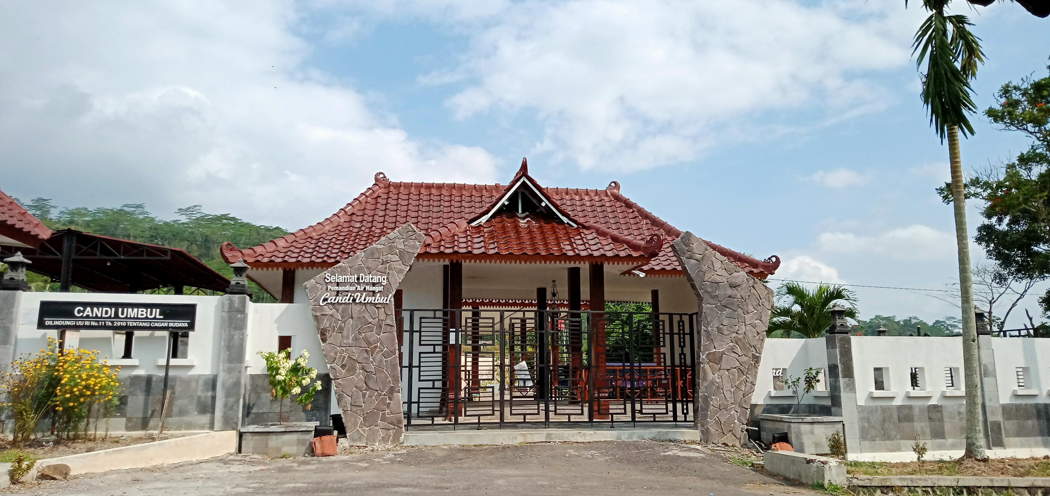 New appearance of Candi Umbil after renovation on 2019